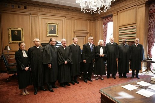 President George W. Bush stands with U.S. Supreme Court Chief Justice John Roberts, as they pose for photos with U.S. Supreme Court Associate Justices, from left to right, Justice Ruth Bader Ginsburg, Justice David H. Souter, Justice Anthonin Scalia, Justice John Paul Stevens, Justice Sandra Day O'Connor, Justice Anthony Kennedy, Justice Clarence Thomas and Justice Stephen G. Breyer, during the investiture ceremony for Chief Justice Roberts, Monday, Oct. 3, 2005 at the Supreme Court in Washington.